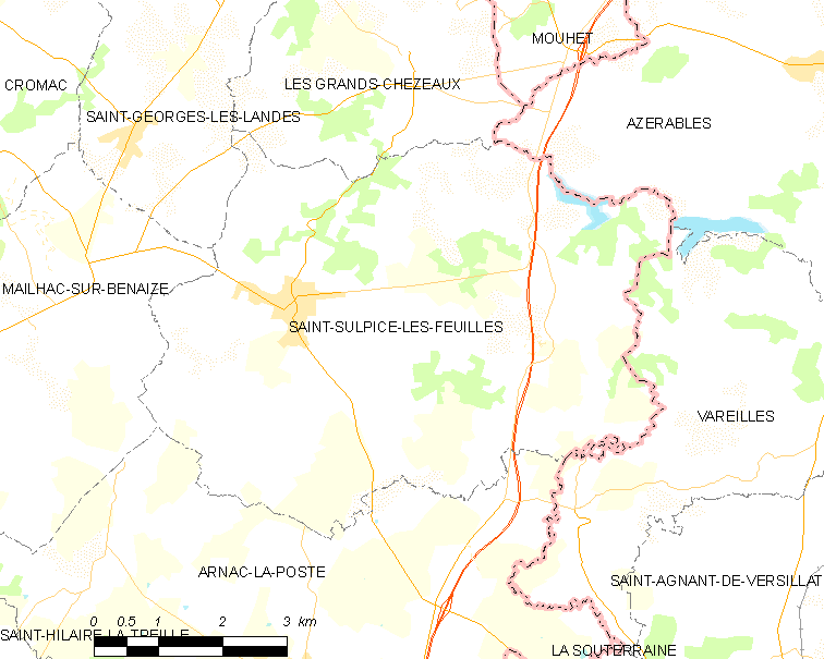 Map of French municipality Saint-Sulpice-les-Feuilles